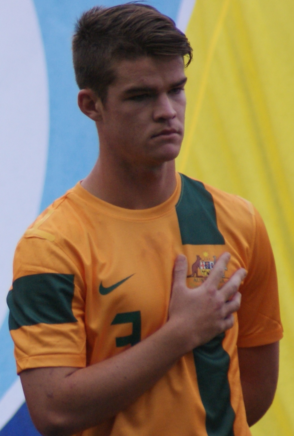 Young Socceroos vs New Zealand